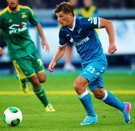 Andrei Arshavin